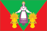 Flag of Mar'inskoe rural settlement, Krasnodar Territory, Russia